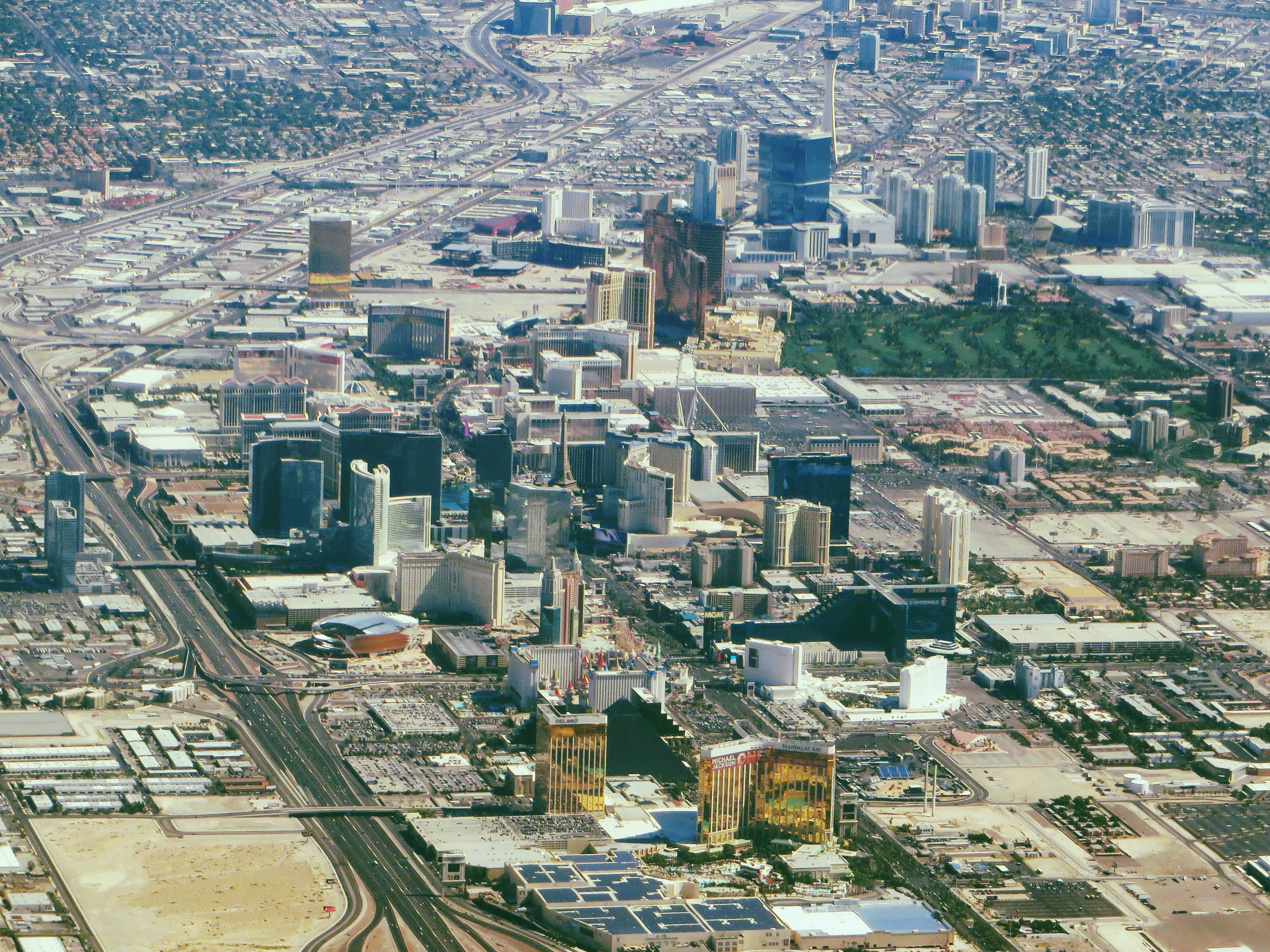 The Las Vegas Strip is an approximately 4.2-mile (6.8 km) stretch of Las Vegas Boulevard South in Clark County, Nevada. The Strip is not located within the City of Las Vegas but it passes through the unincorporated towns of Paradise and Winchester, which are south of the Las Vegas city limits. Most of the Strip has been designated an All-American Road. Many of the largest hotel, casino and resort properties in the world are located on the Las Vegas Strip. Fifteen of the world's 25 largest hotels by room count are on the Strip, with a total of over 62,000 rooms. One of the most visible aspects of Las Vegas' cityscape is its use of dramatic architecture. The modernization of hotels, casinos, restaurants, and residential high-rises on the Strip has established the city as one of the most popular destinations for tourists.